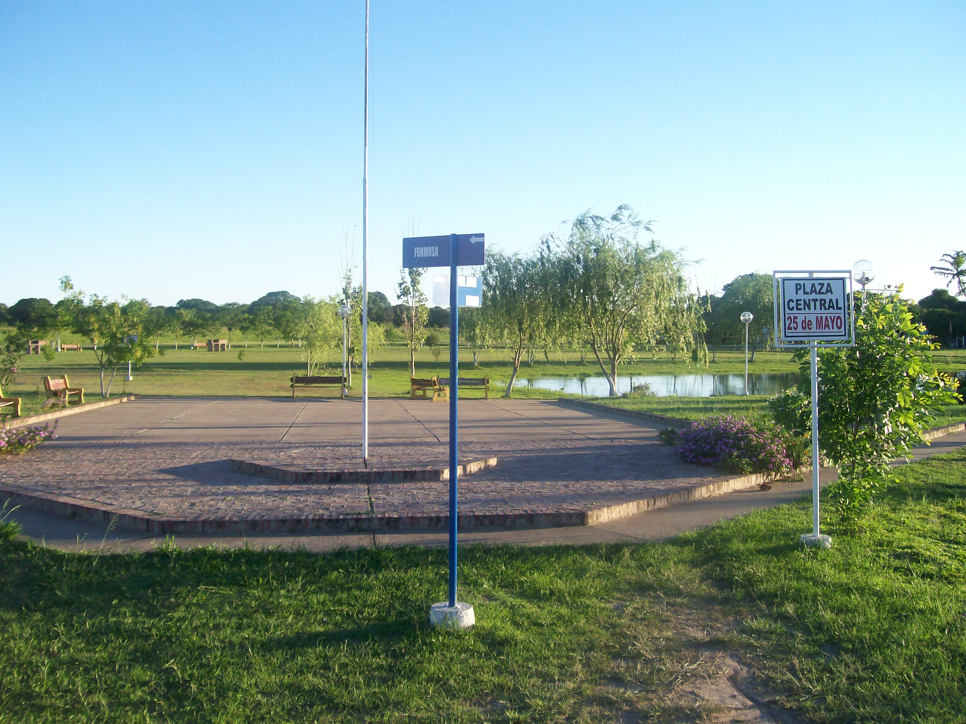 Colonia Popular (Chaco Province, Argentina) main square, seen from the corner of Formosa and General Manuel Belgrano streets.